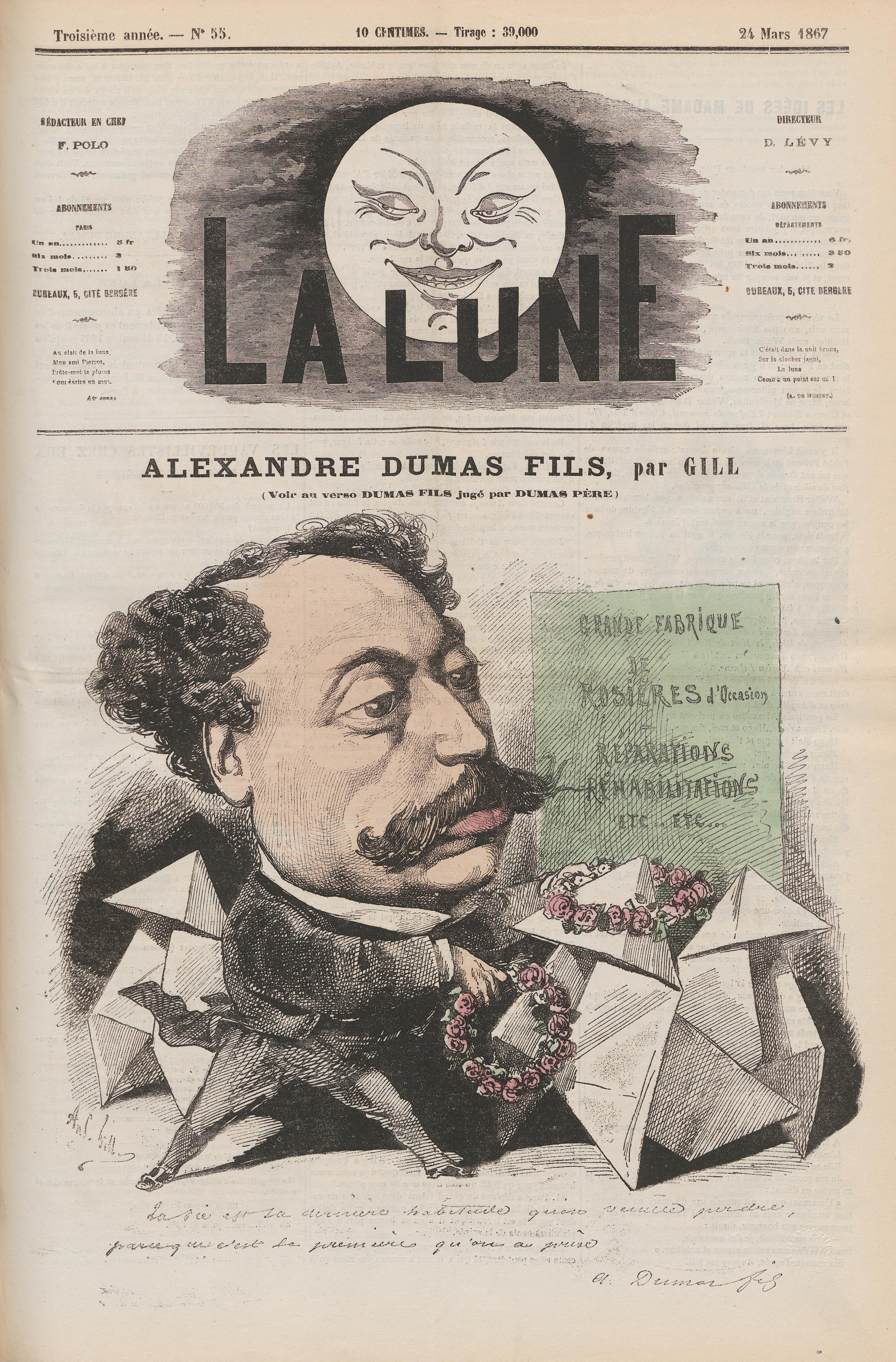 Caricature of Alexandre Dumas fils, Hand-colored Engraving in La Lune, Cover of 24 March 1867. 12"w x 18"h